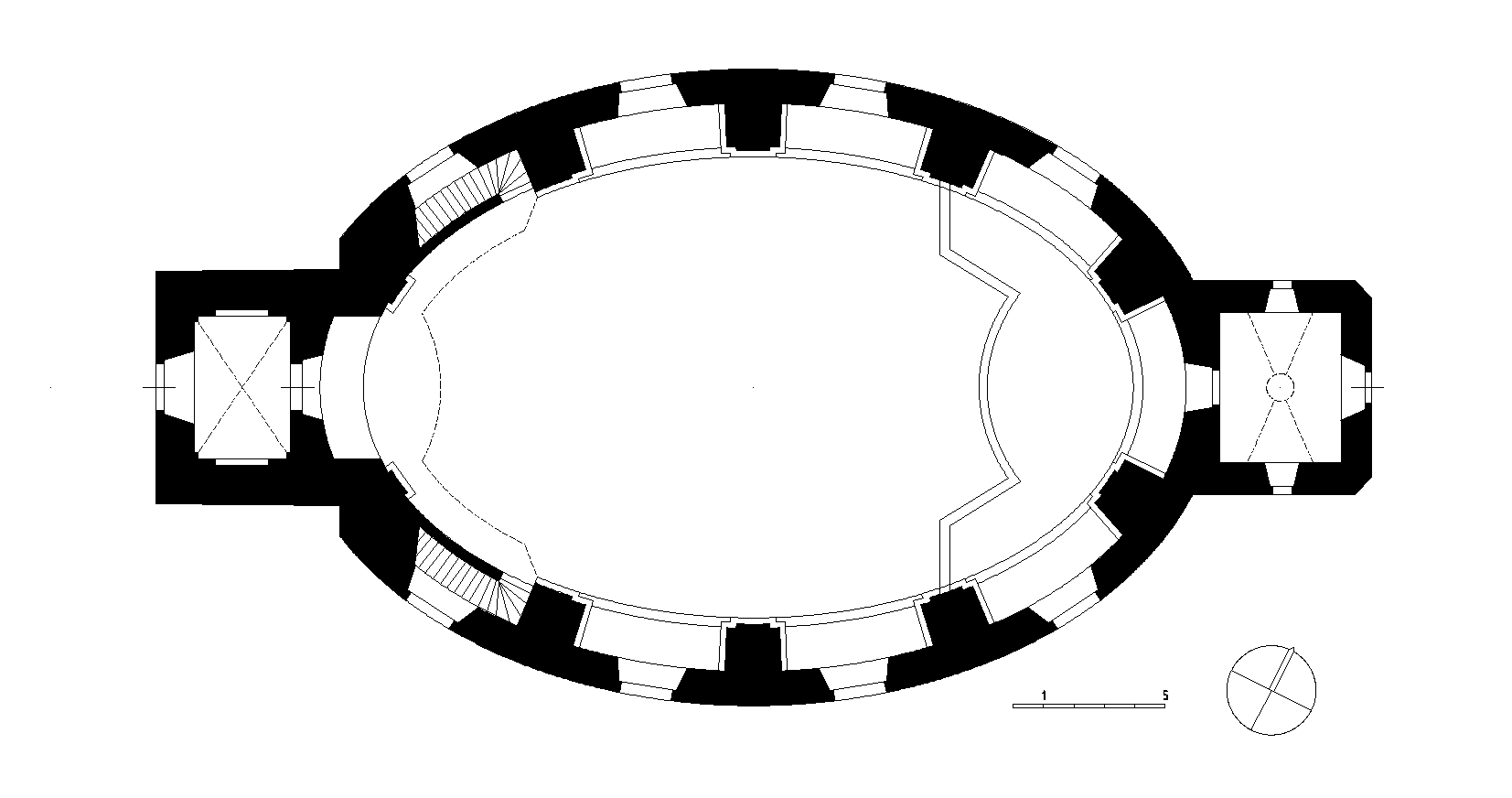 plan of church in Vernéřovice, redrawing of scan from book "Kilián Ignác Dientzenhofer a umělci jeho okruhu"